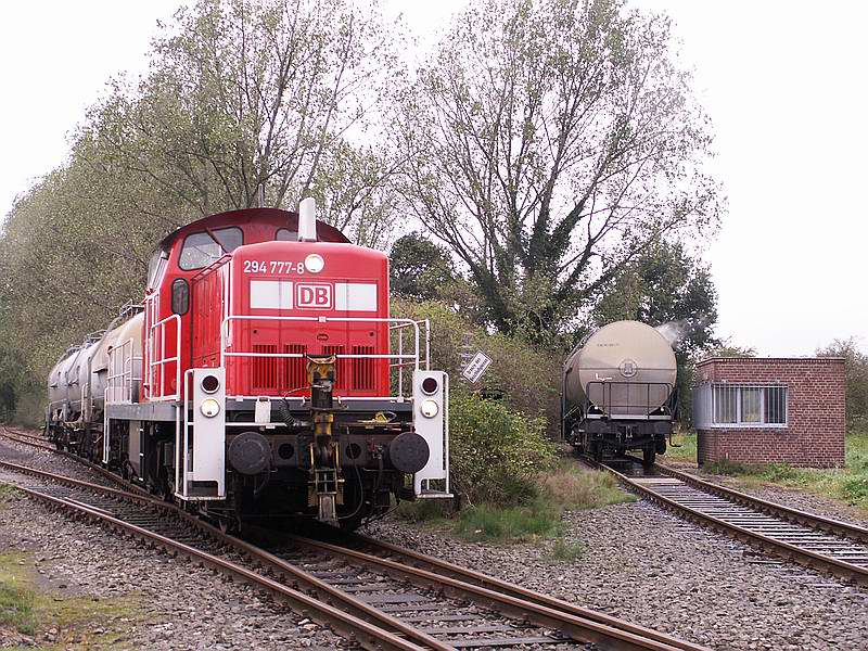 photographed by me